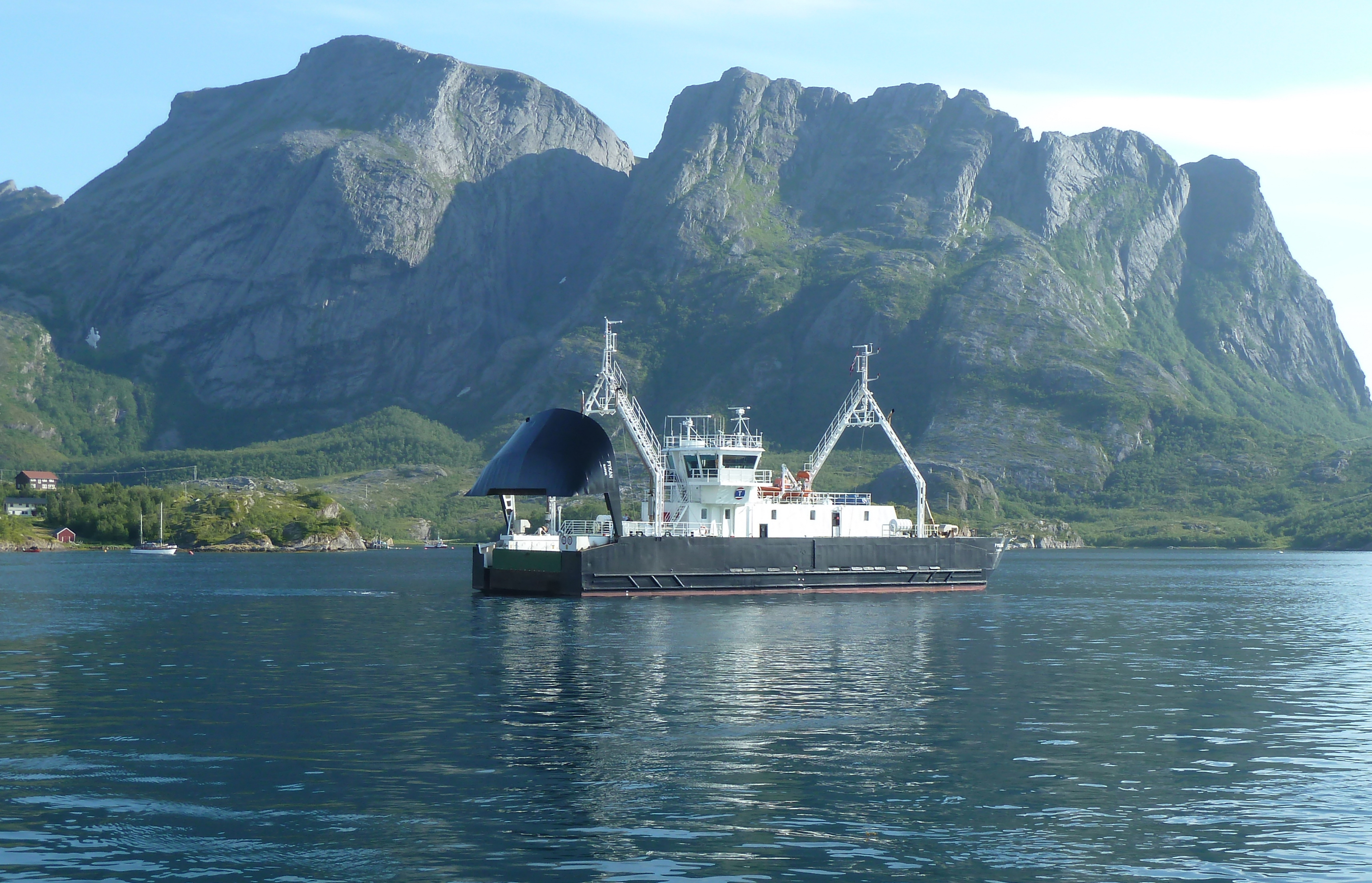 Car ferry Fykan in Skjåvika, Rødøy.